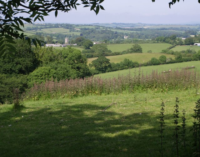 View towards Lezant A view from the lane between Trebullett and Lezant, across fields with 423747 visible in the next square. The farm building on the extreme right is at Mount Hawke .